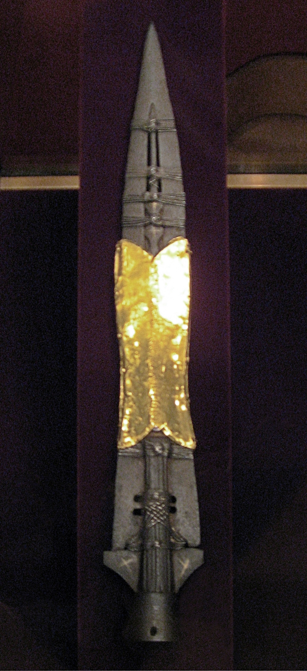 The Holy Lance Carolingian, 8th century Steel, iron, brass, silver, gold, leather 50.7 cm long SK Inv. No. XIII 19